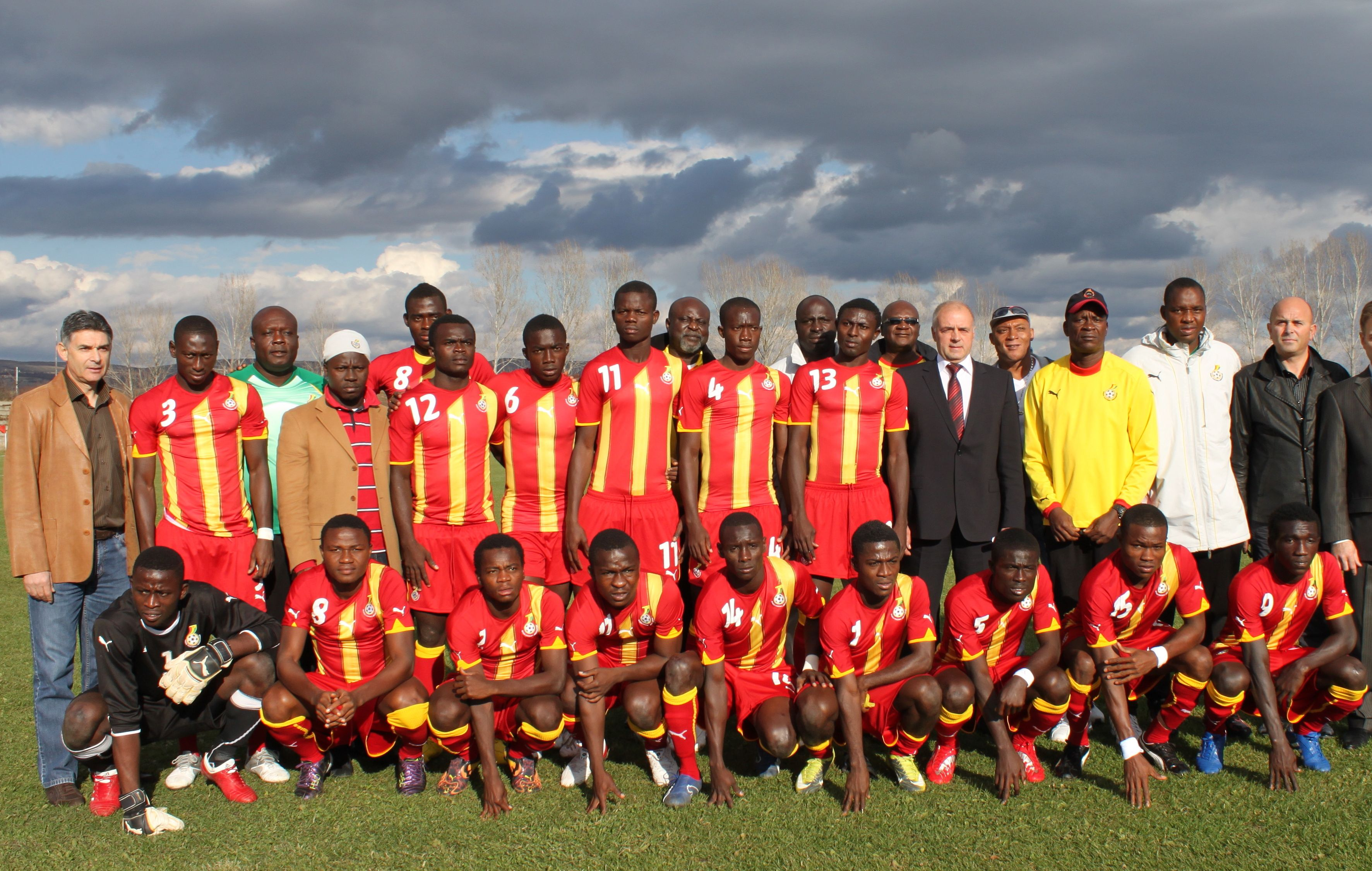 Ghana national U-20 football team (known as the Black Satellites), the current FIFA U-20 World Cup Champions and African Youth Champions, have been a three-time African Champion in 1995, 1999, 2009 and a two-time Runner-up at the FIFA World Youth Championship in 1993 and 2001. 18-11-2010, Slivnitsa, Bulgaria.